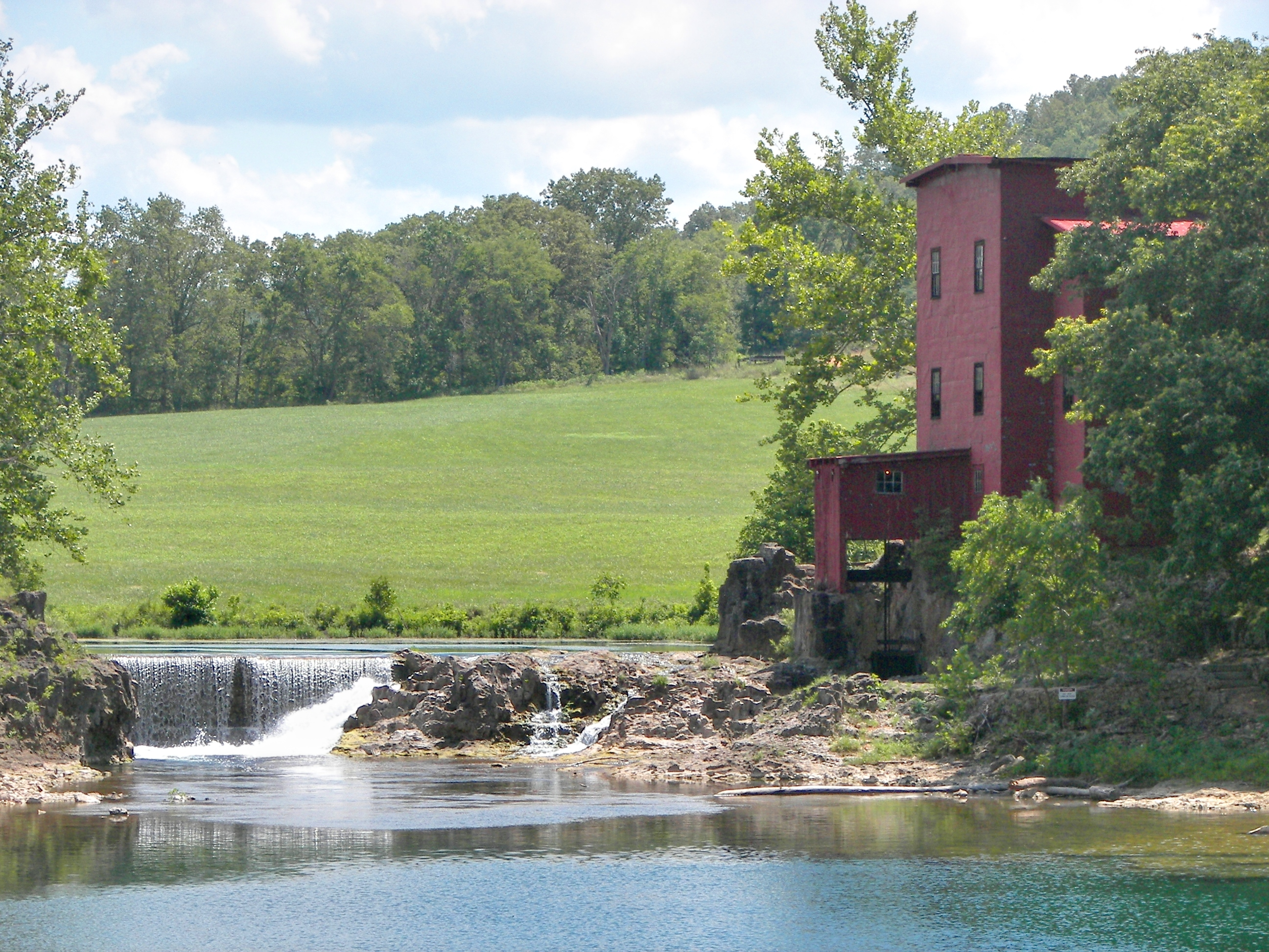 Dillard Mill State Historic Site in the Ozarks of Missouri.